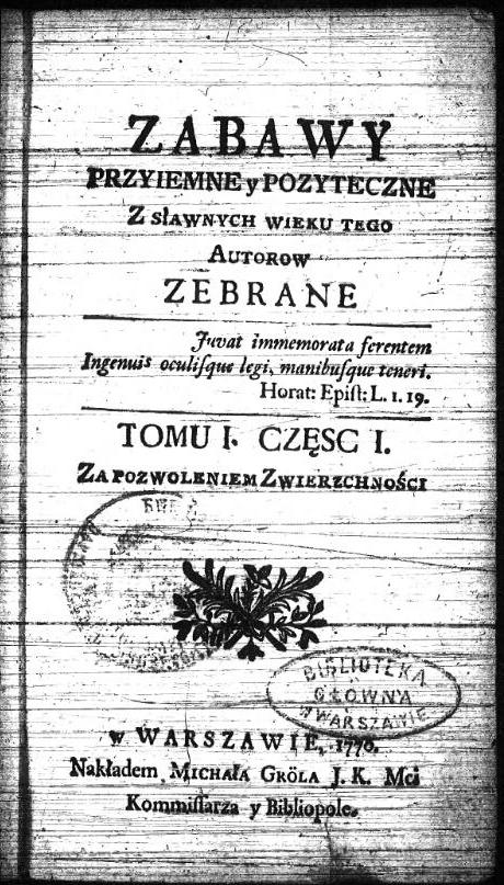 The front page of polish newspaper "Zabawy przyjemne i pożyteczne" (1770)